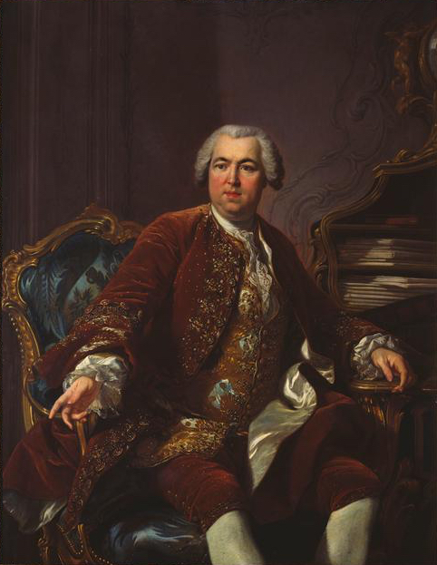 Portrait of Nicolas Beaujon (1718-1786)